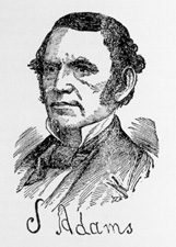 Portrait of Senator Stephen Adams of Mississippi